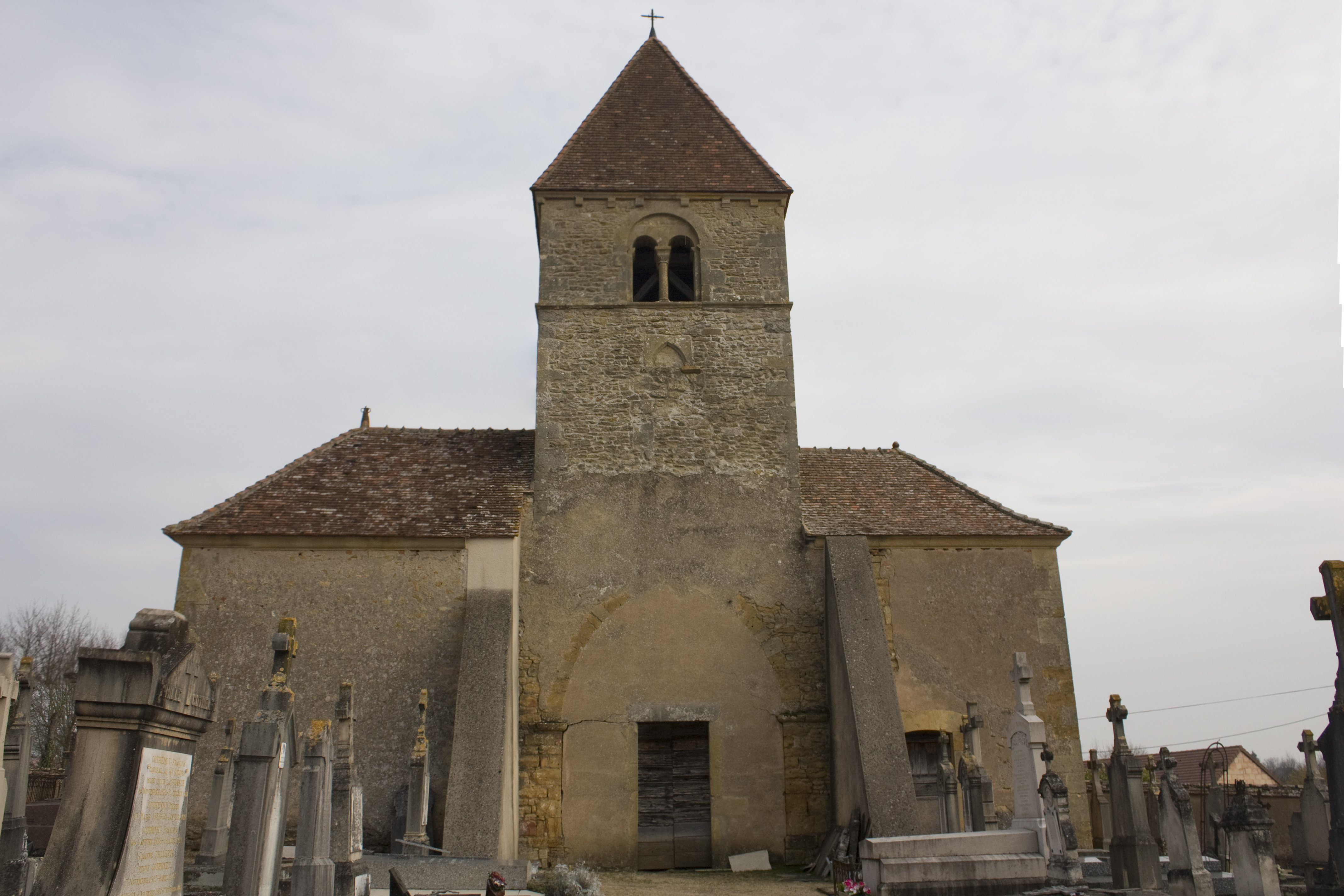 Chapel from the XIIth century, abandoned.